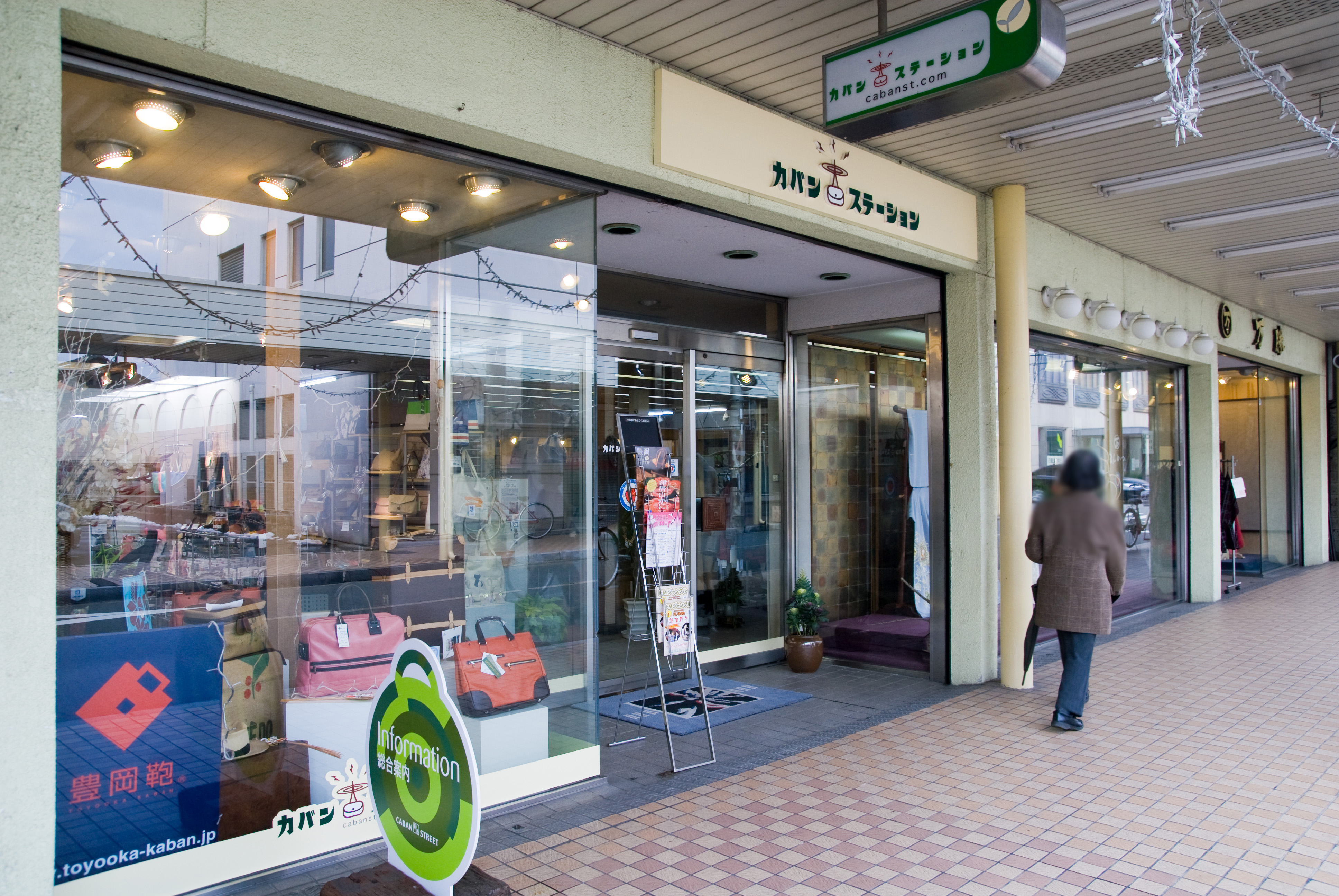 caban station（information）